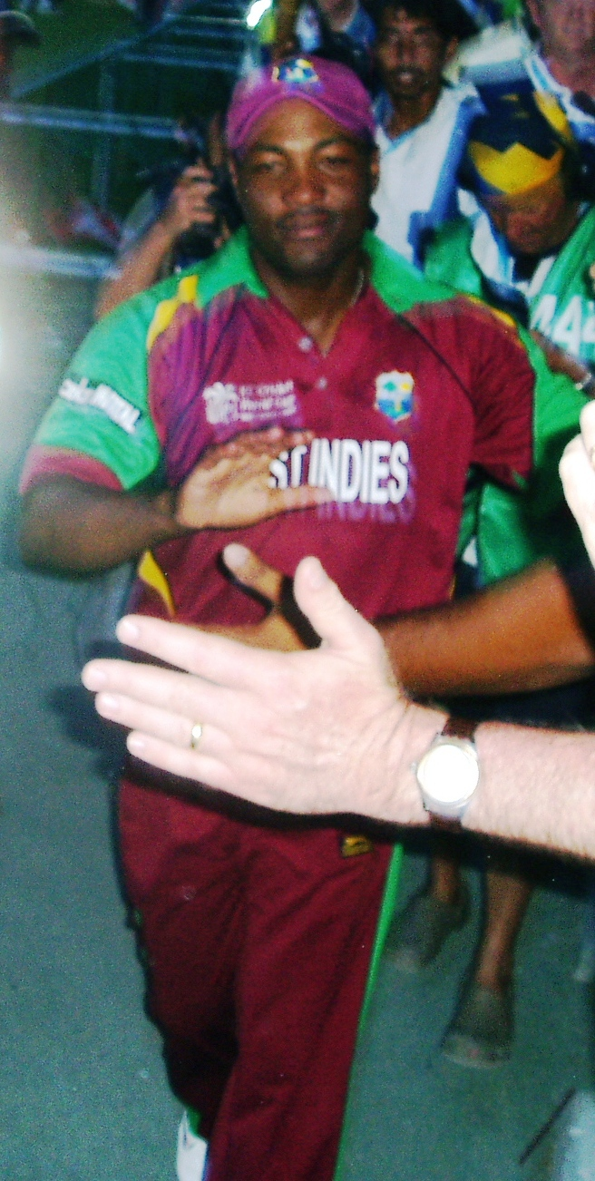 Brian Lara's final match - the lap of honour. Croppped version of Image:Brian Lara lap of honour.jpg